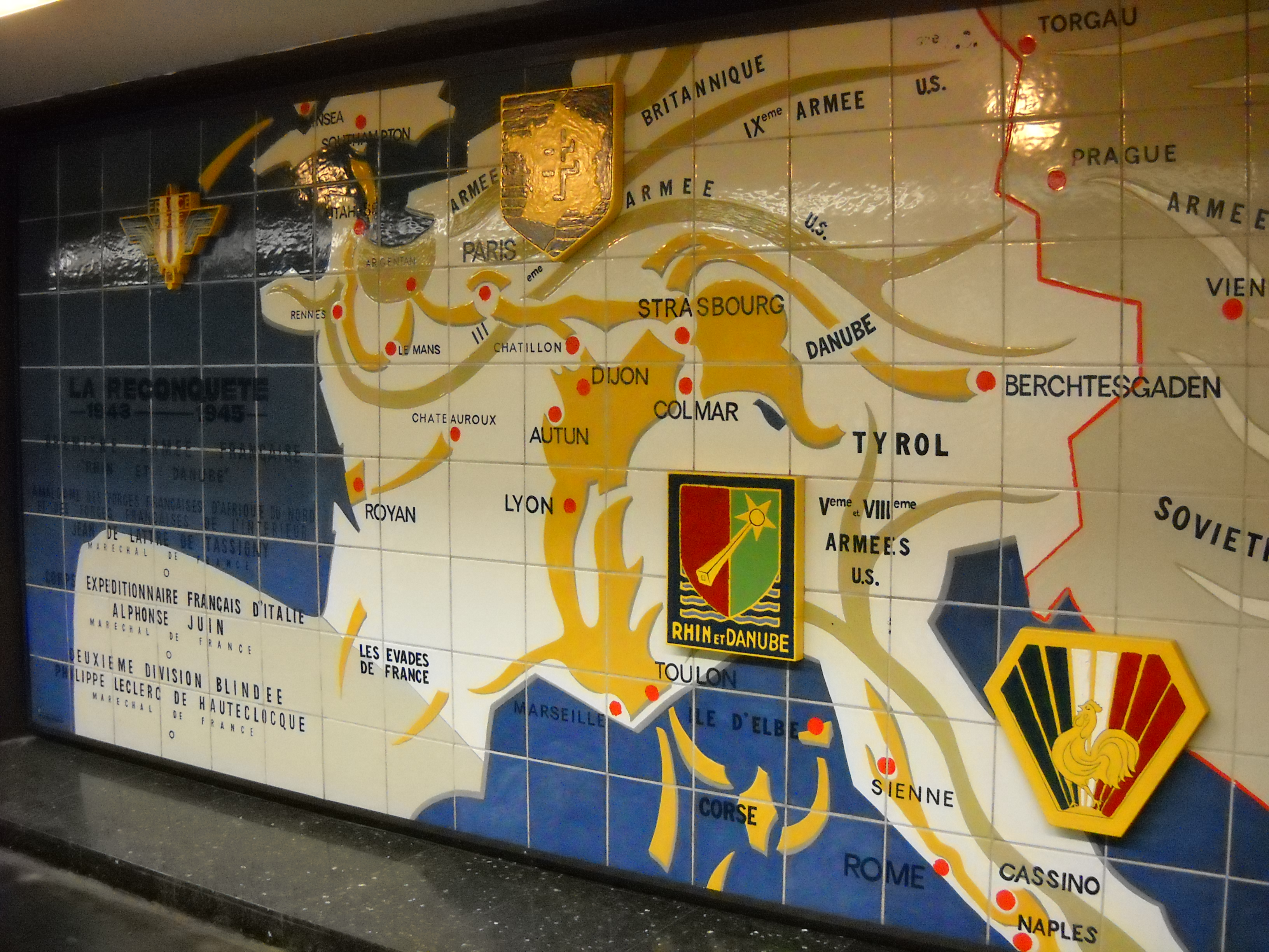 Fresco inside Boulogne-Pont de Saint-Cloud station, on Paris metro line 10.